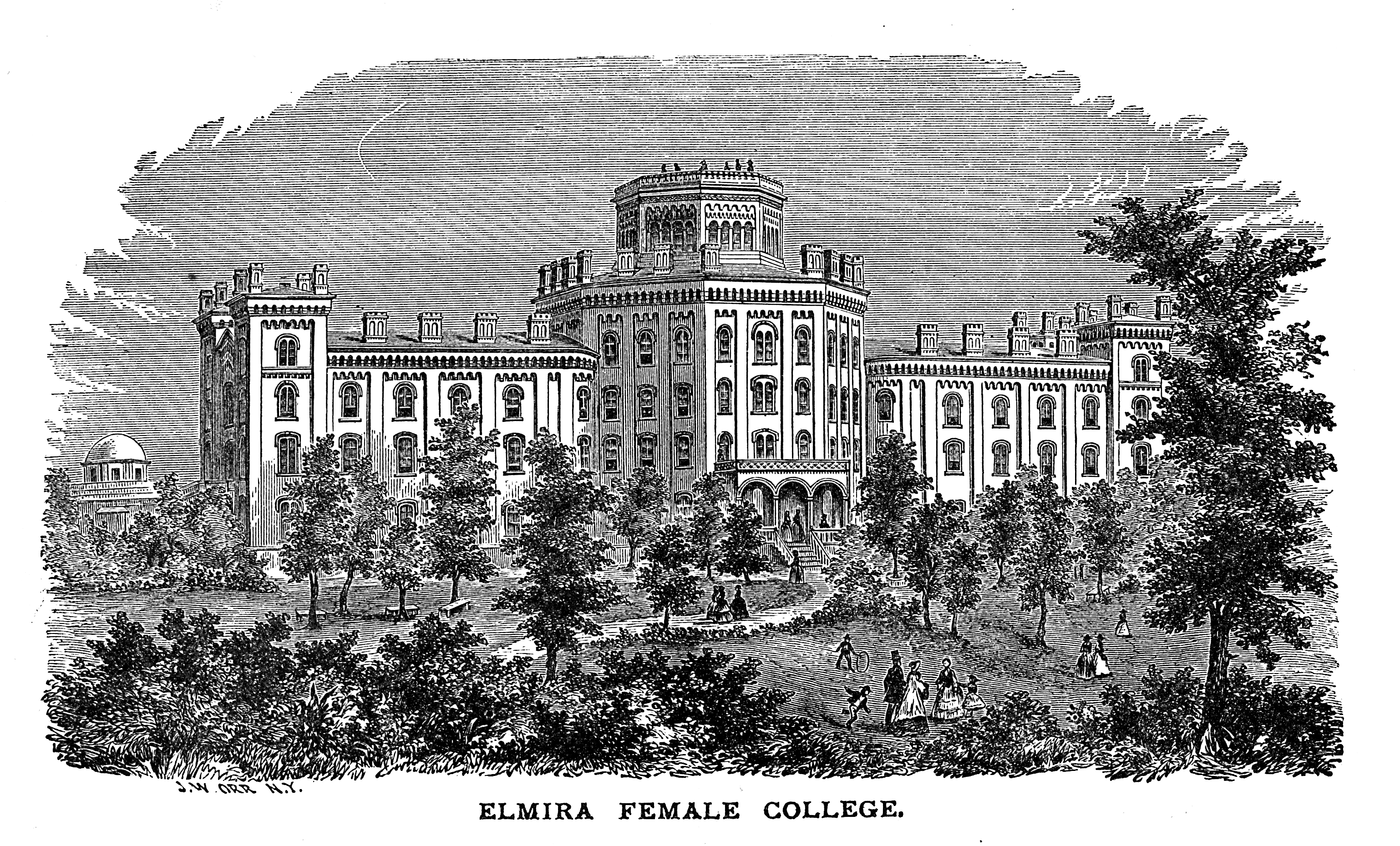 Lionel Pincus and Princess Firyal Map Division, The New York Public Library. "Elmira Female College; Suitherland Falls, Otter Creek, Vt.; Bridge Over the River; Southern Tier Orphans Home, Elmira, N.Y." The New York Public Library Digital Collections. 1869. From Atlas of Chemung Co., New York: from actual surveys by and under the direction of F. W. Beers ; assisted by Geo. P. Sanford & others, 1869